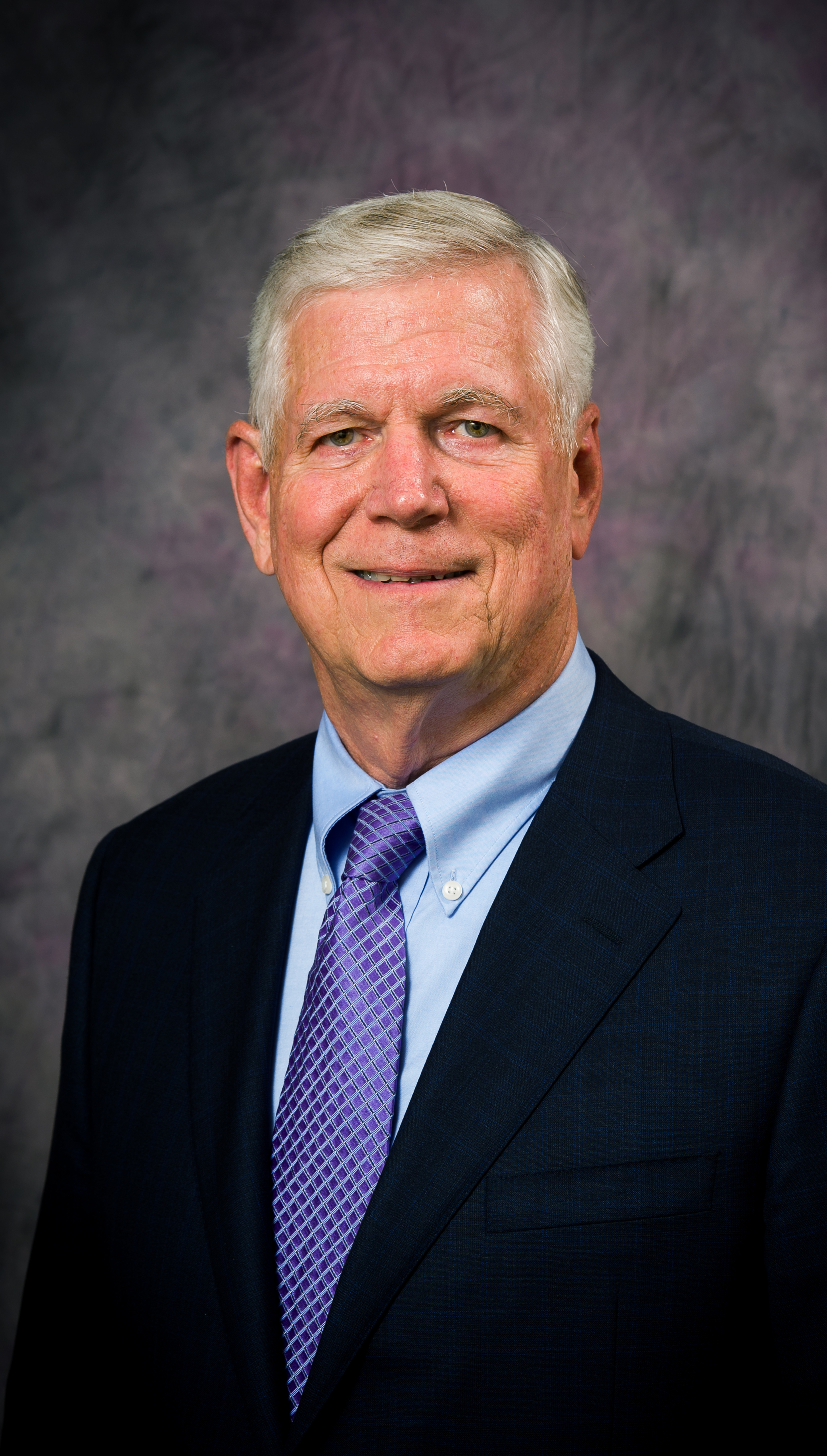 Richard Myers official photo as the Kansas State University president.